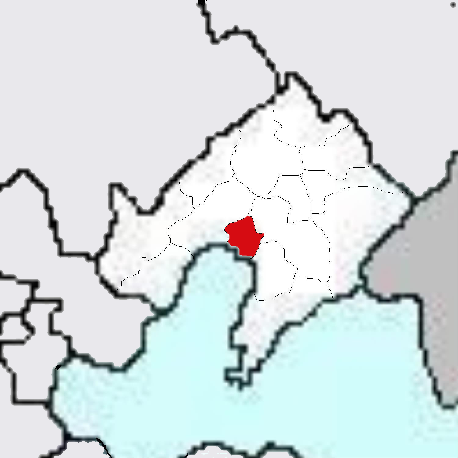 Map of Panjin Prefecture — Liaoning Province, China